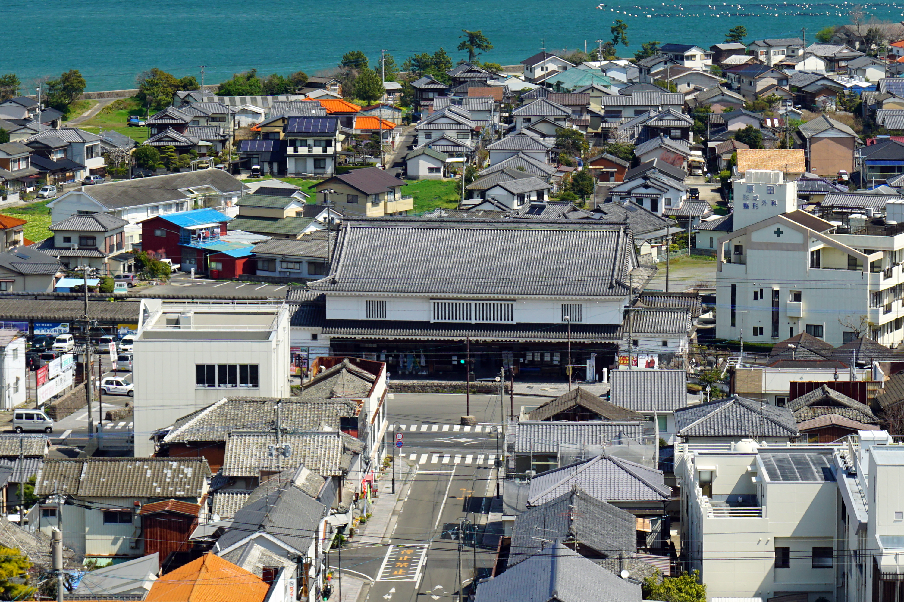 A view from Shimabara Castle in Shimabara, Nagasaki prefecture, Japan.